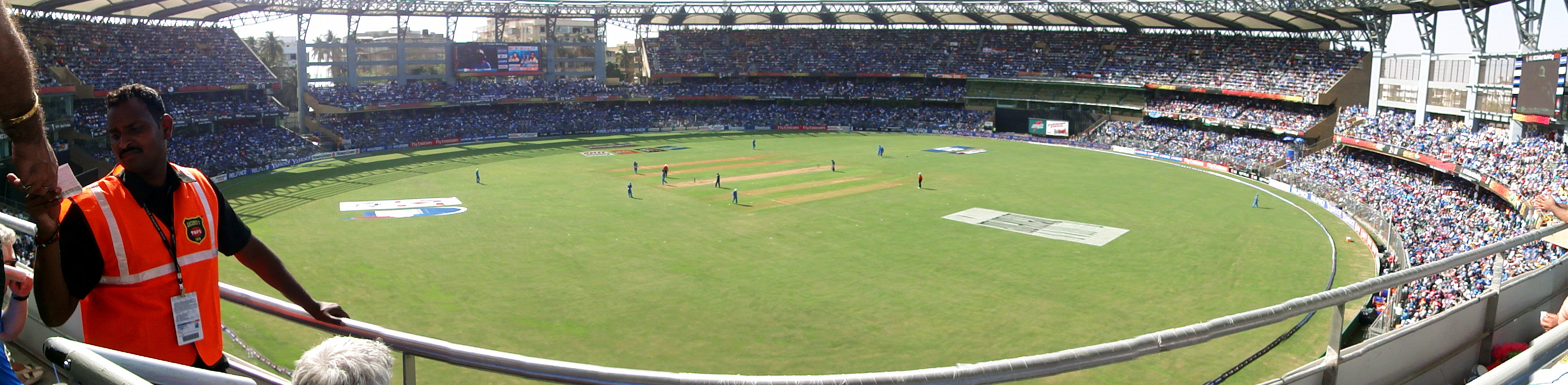 Panoramic shot of Wankhede Stadium during the first innings of the 2011 ICC World Cup Final between Sri Lanka and India.